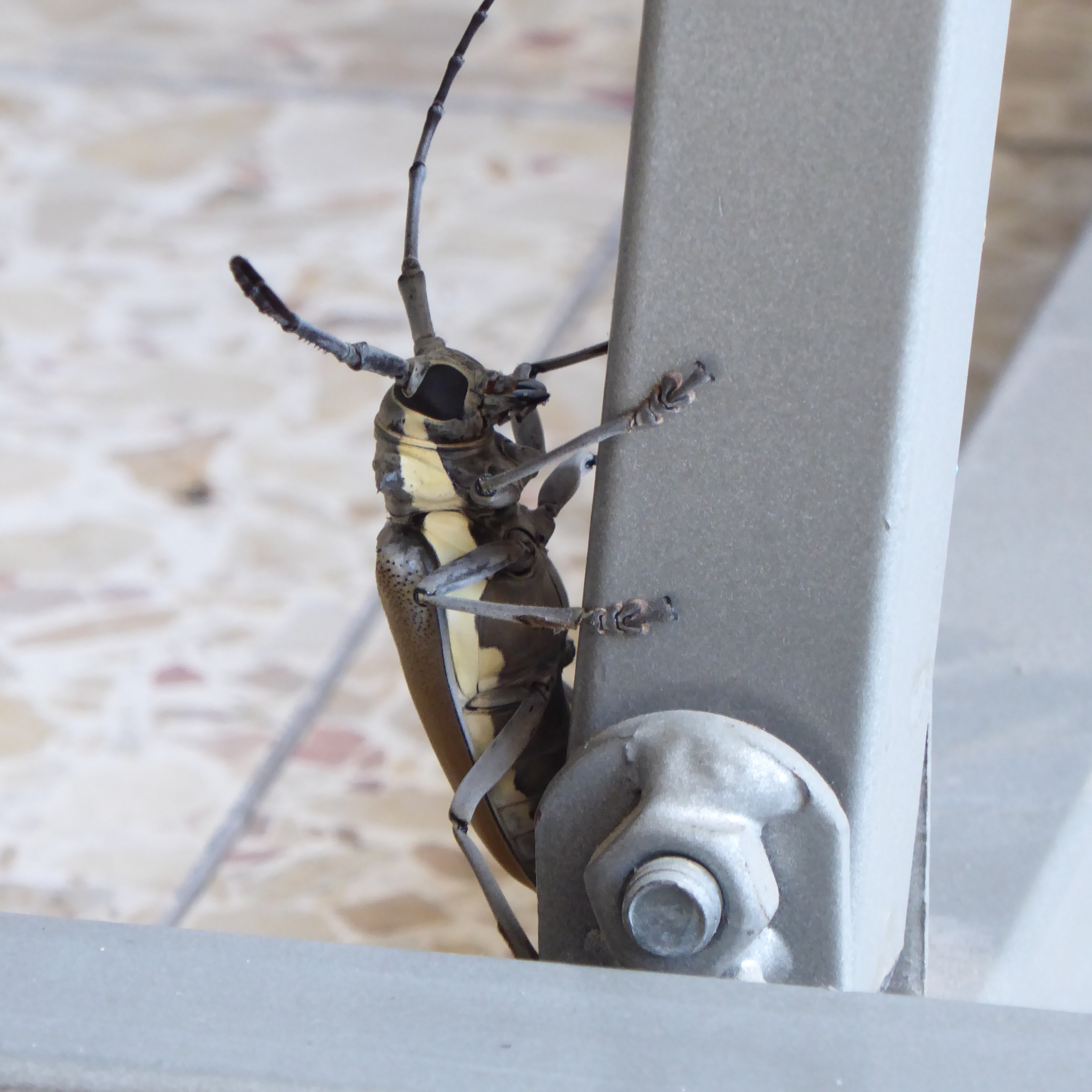 Batocera rufomaculata